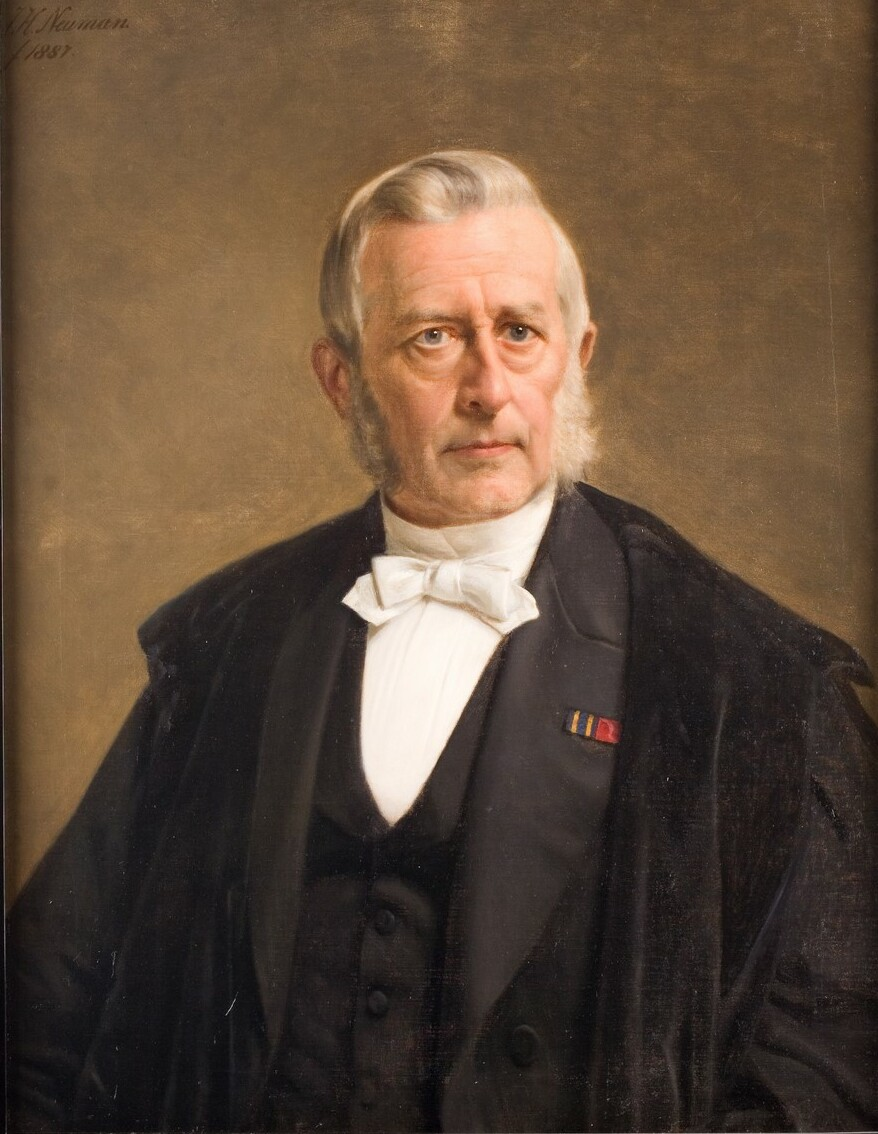 Matthias de Vries (1820-1892) Dutch historians, linguists and literary scholars